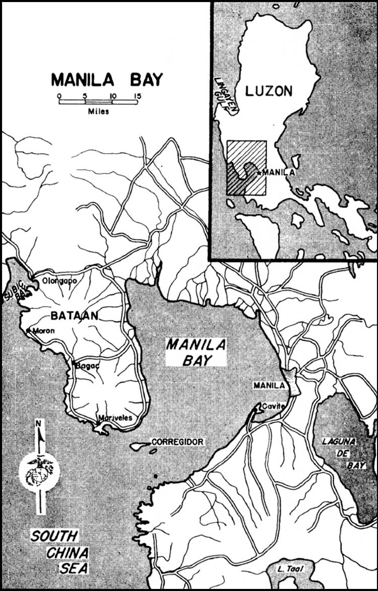 Manila coastal plan